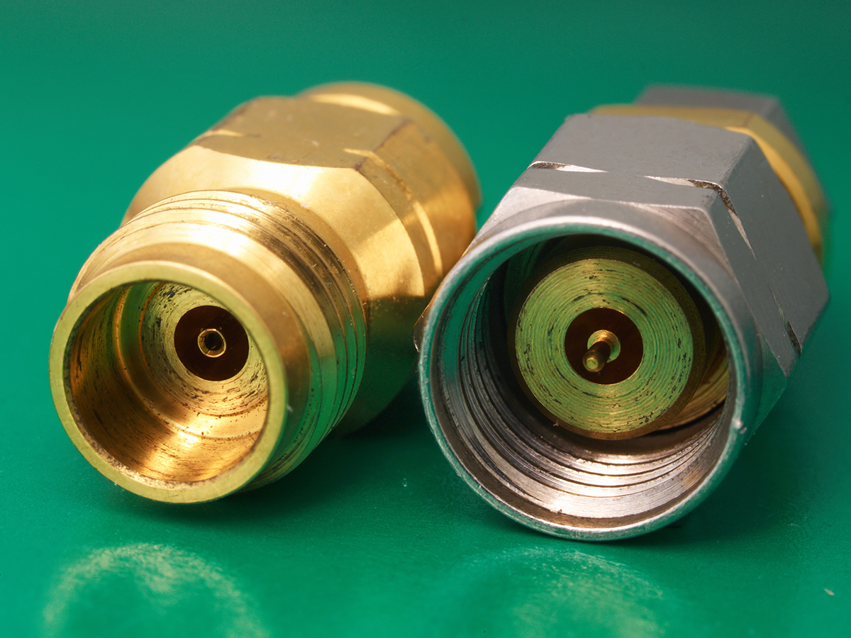 Male and female 1.85 mm connectors